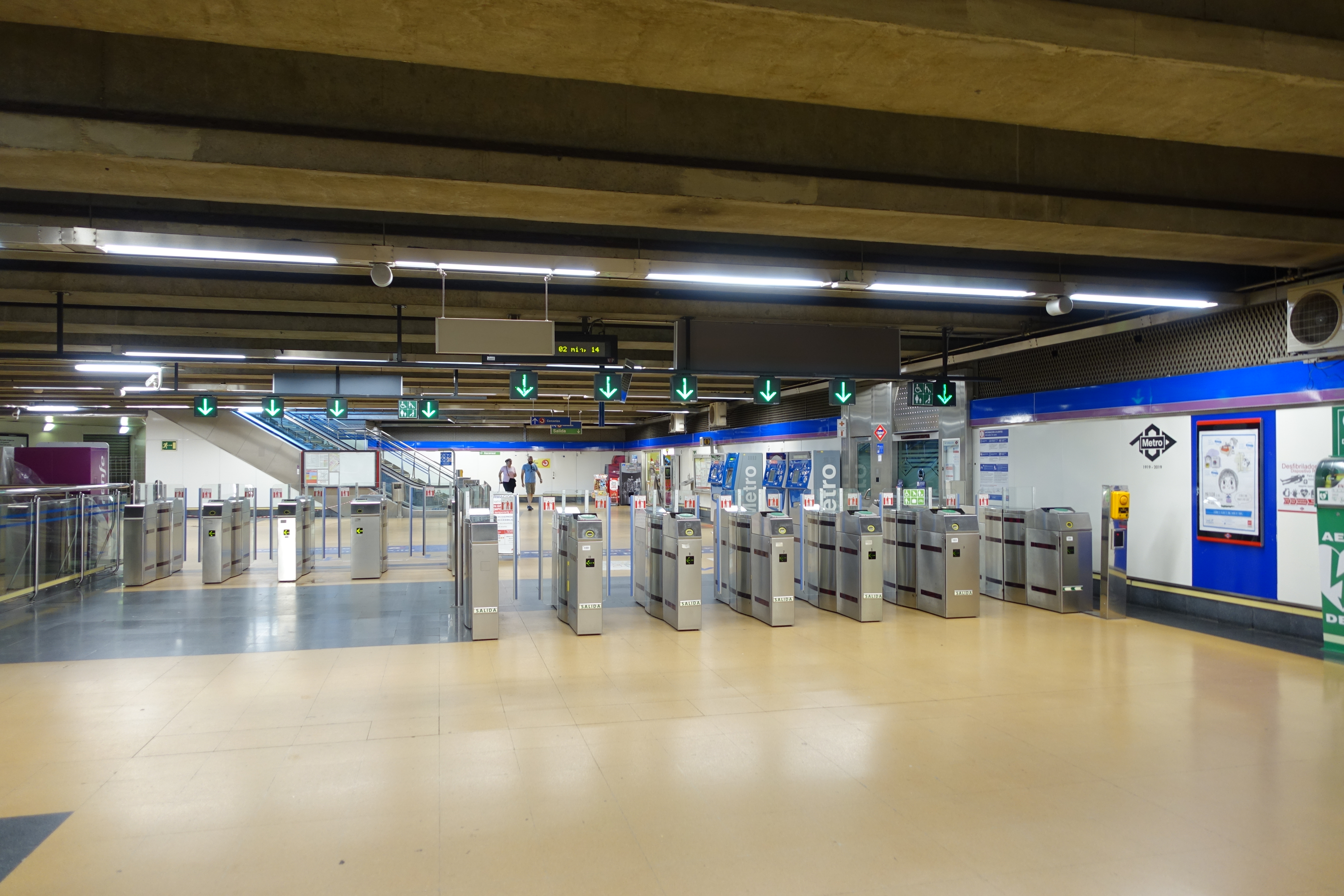 Turnstiles at station Puerta de Arganda of Metro Madrid